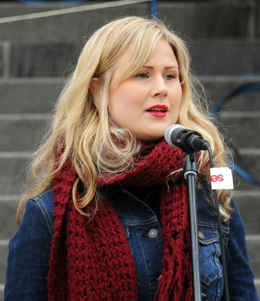 Sofia Fölster, member of the Parliament of Sweden for the Moderate Party.